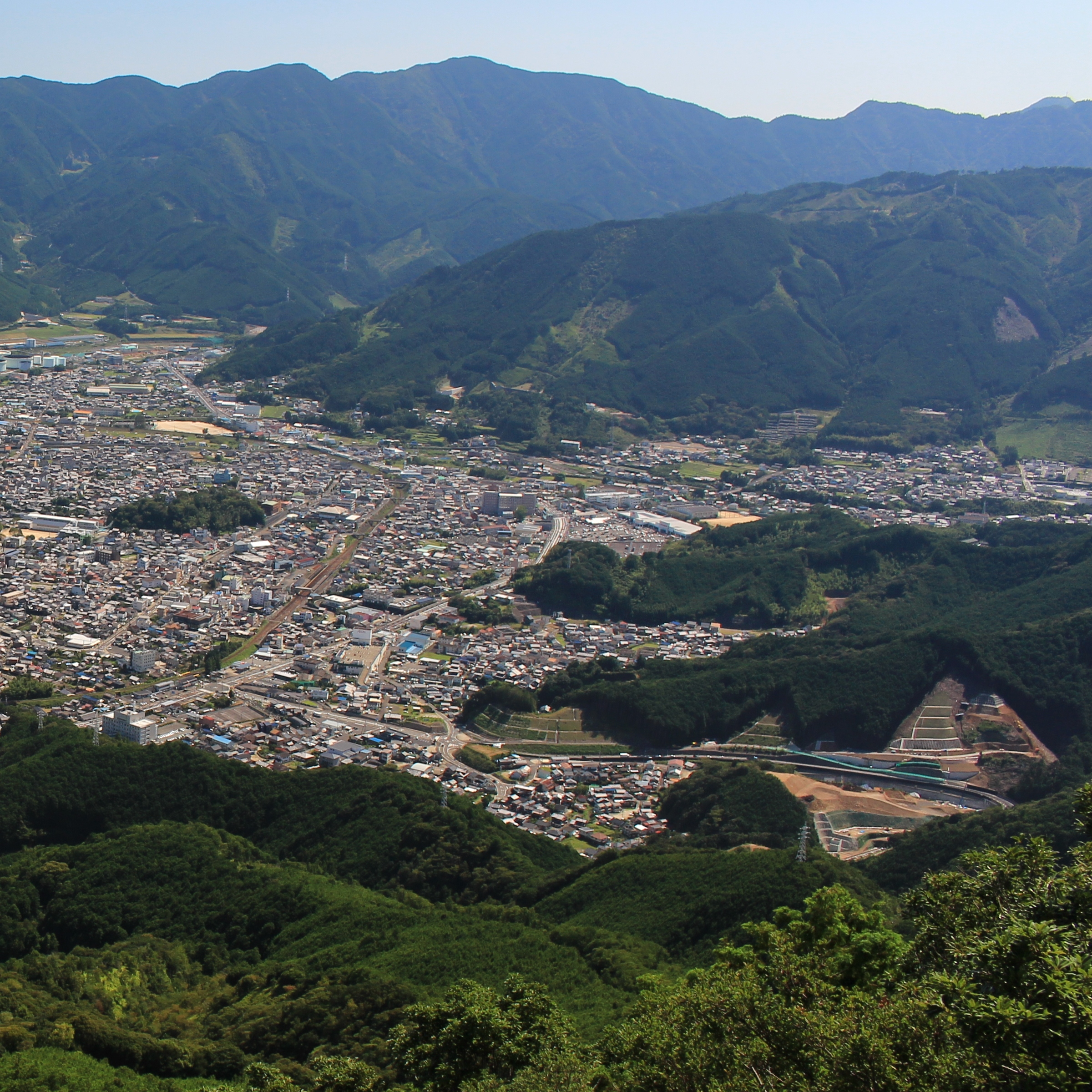 Route 425 and Route 42 seen from Mount Binshi, in Mie prefecture, Japan.